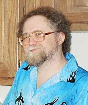 Aaron Allston at the Deadbacks wrap party, Austin, Texas, United States.